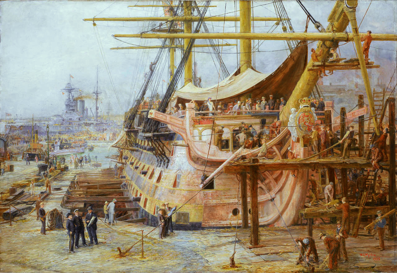 Restoring HMS Victory oil on canvas 127.5 x 186.3 cm signed b.r.: WL Wyllie / 1925